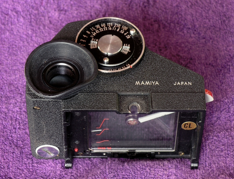 DANYvanvee